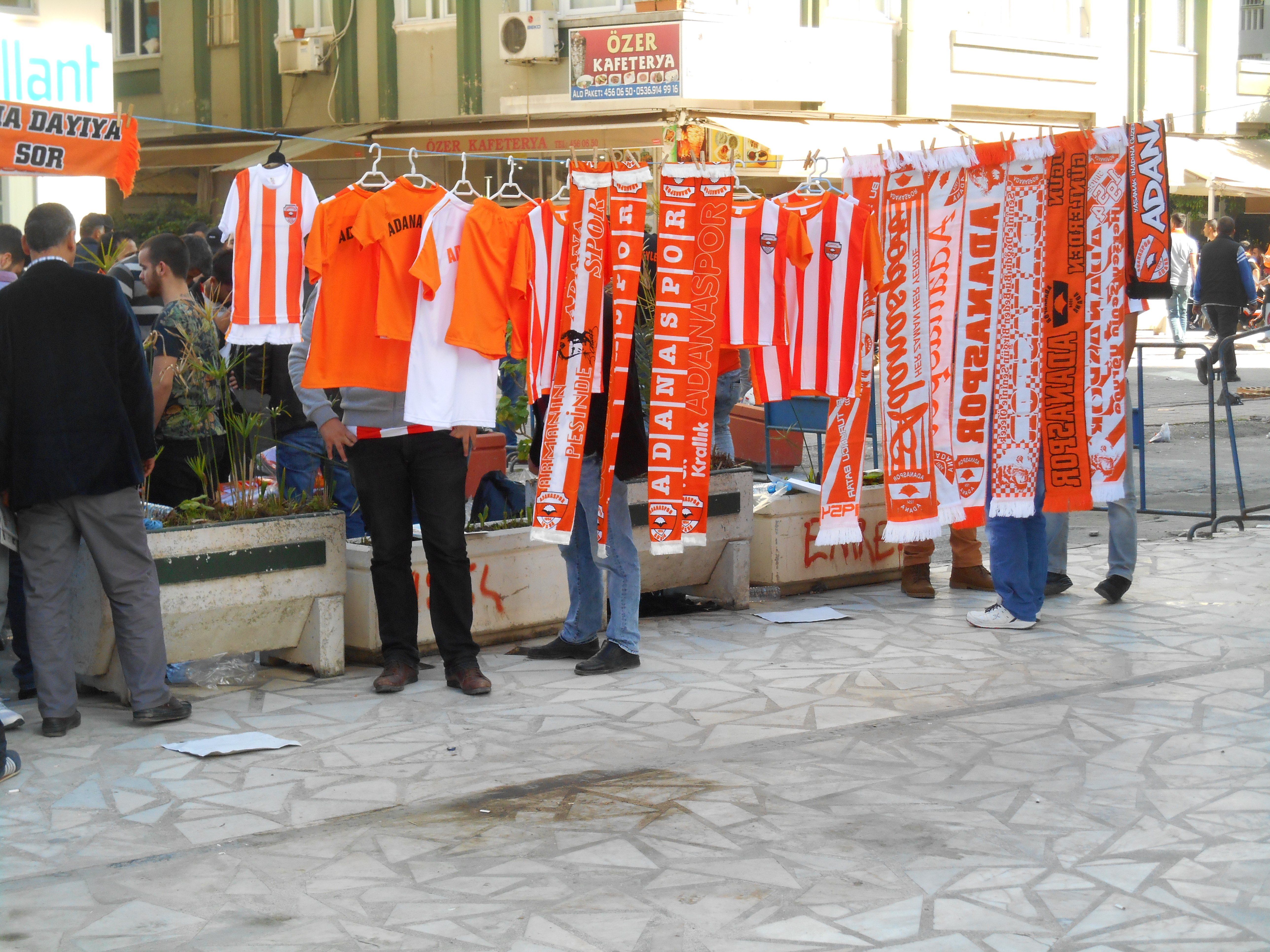 Adanaspor accessories on sale at the stadium's south.